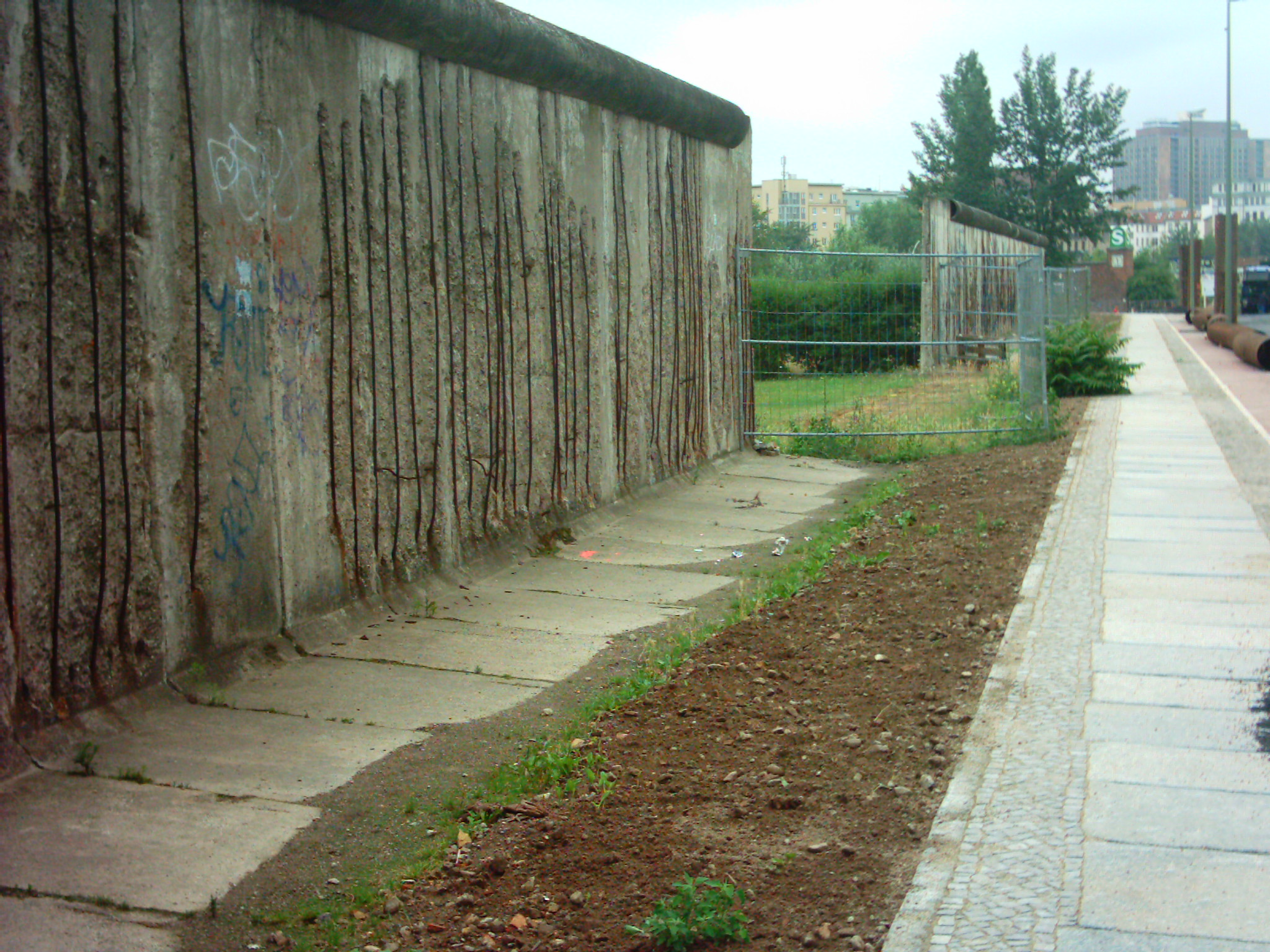 a preserved part of the Berlin Wall at the wall memorial in Bernauer Straße in Berlin